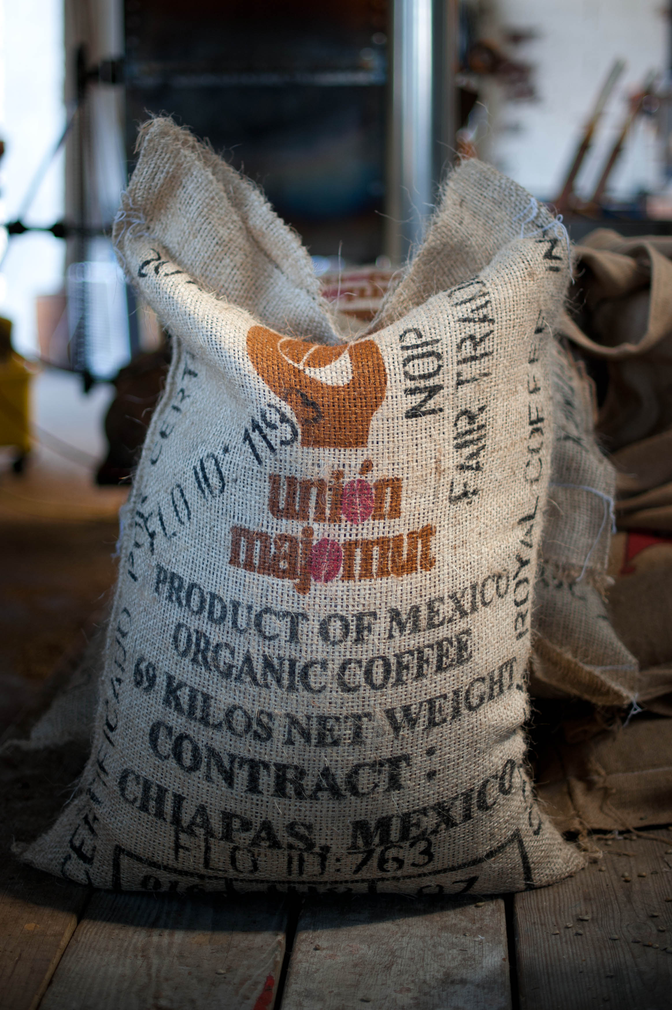 Bag of unroasted coffee beans